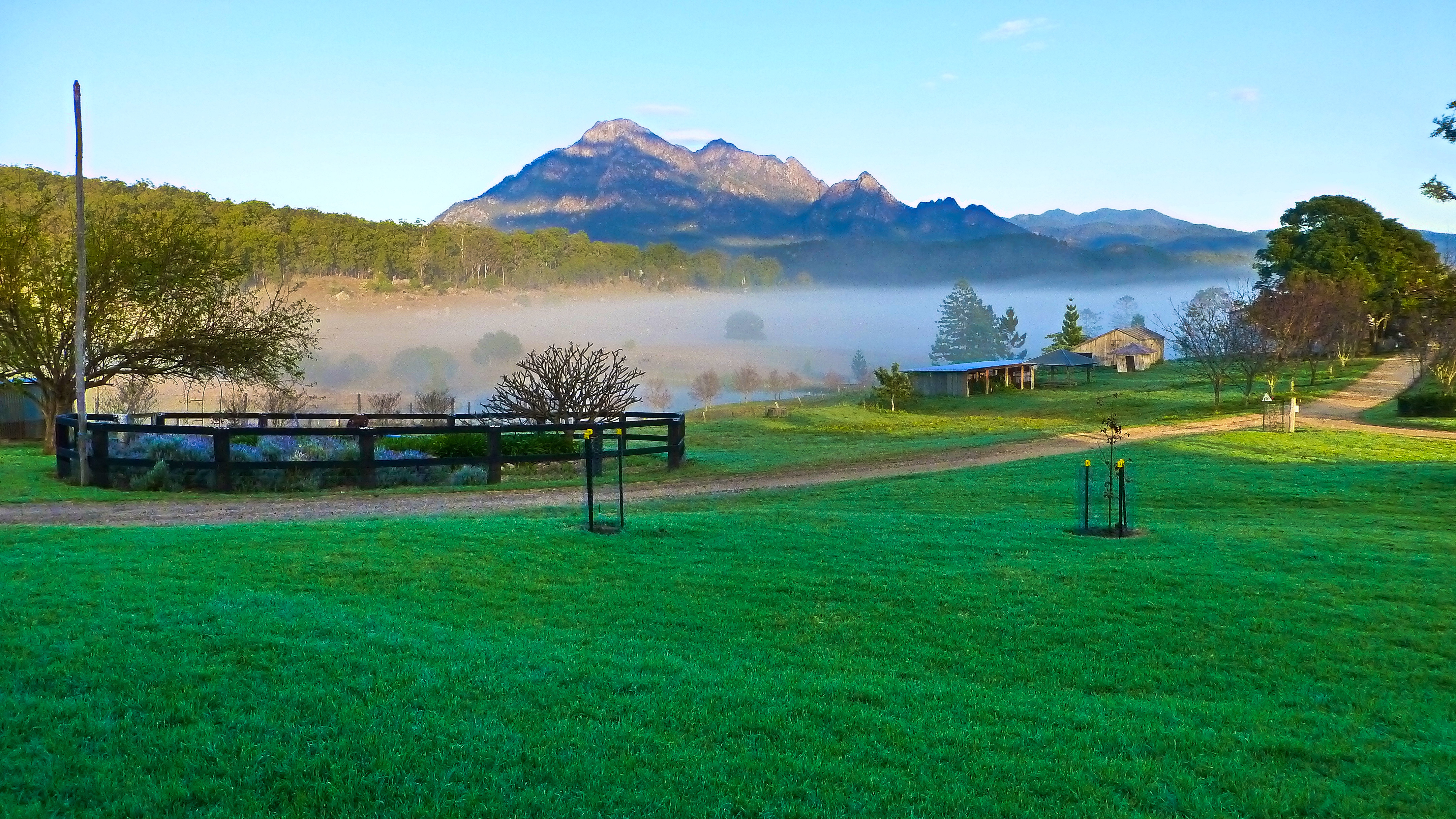 Mt Barney over the fog from Lillydale